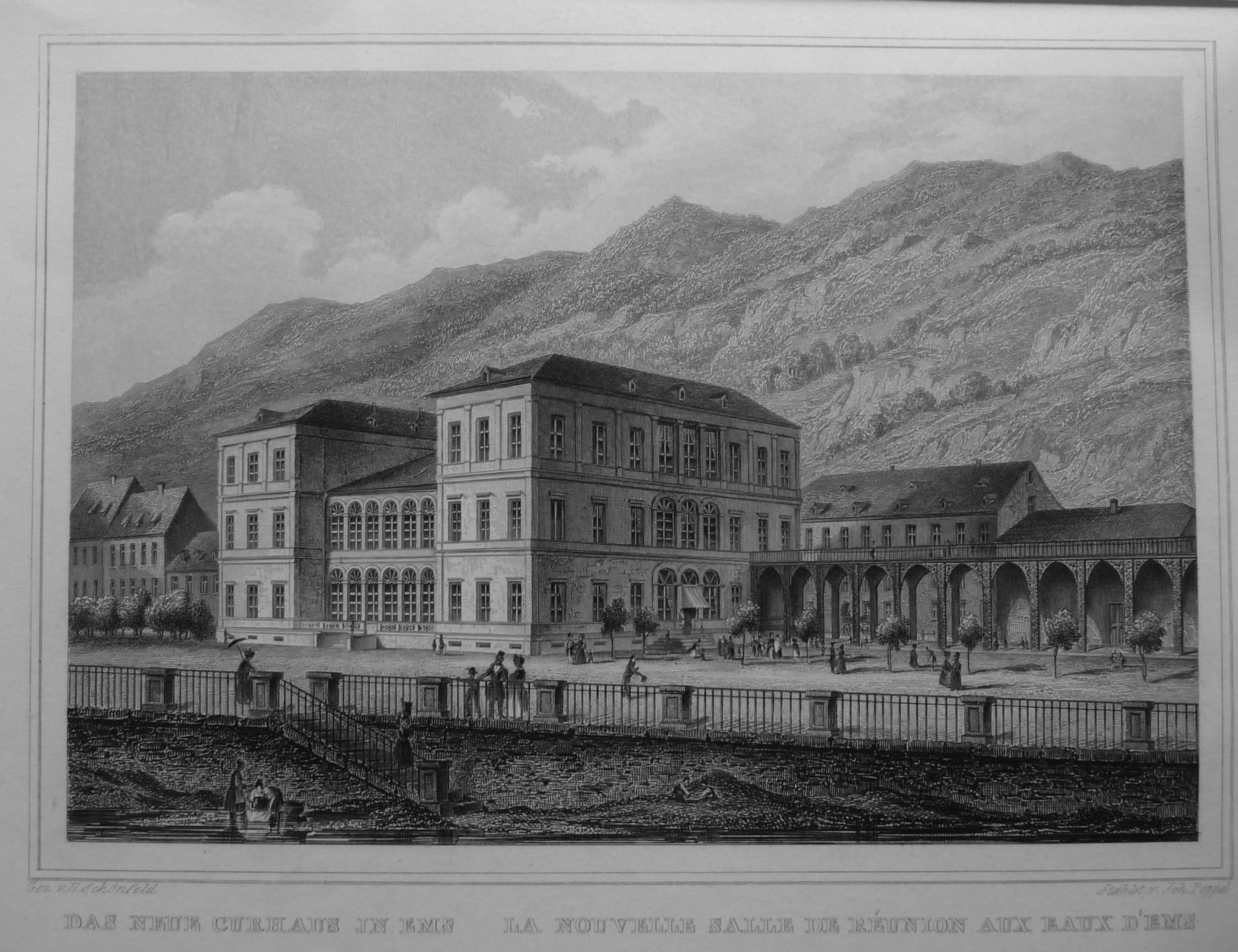 Kursaal in Bad Ems, architect Johann F. Gutensohn, 1836-1839